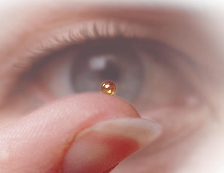 Image of an inertial confinement fusion fuel microcapsule. They are 2-millimeter-diameter capsules that contain a central reservoir of deuterium-tritium (D-T) gas, a frozen D-T solid-fuel layer, and an outer ablator layer.